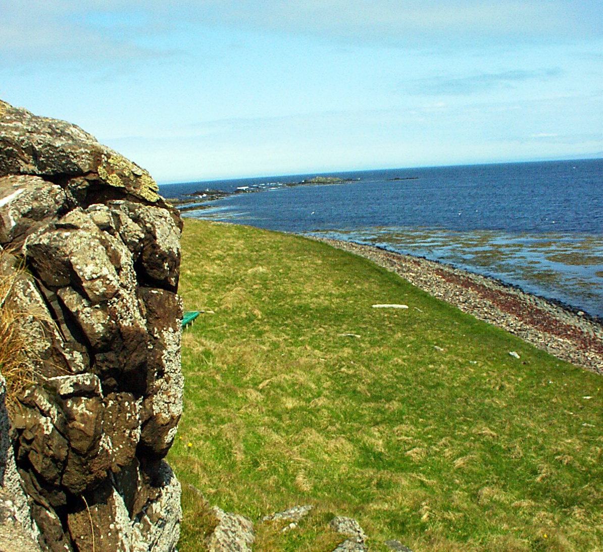 View of the bay Hindisvík on Vatnsnes peninsula in the north of Iceland